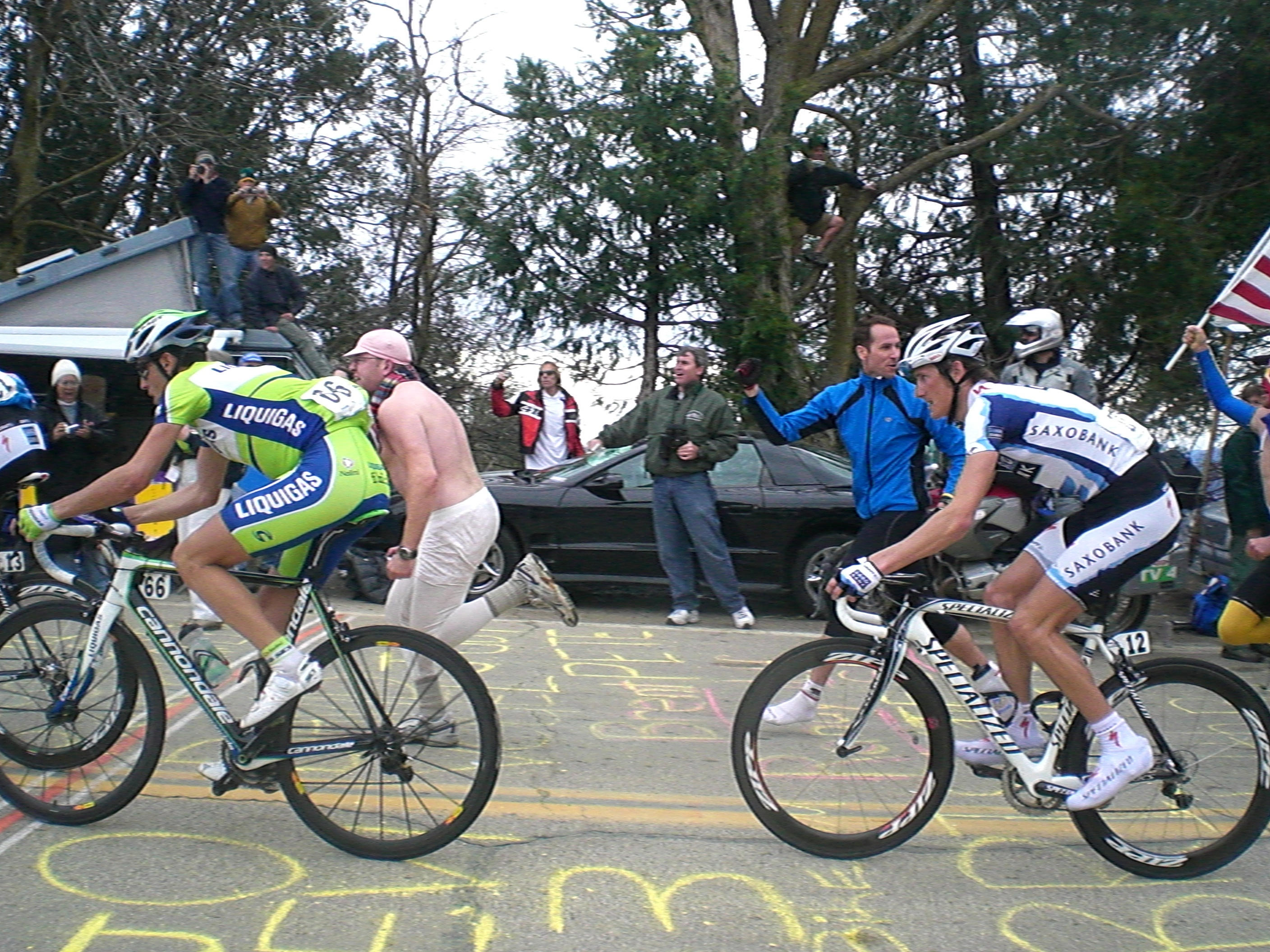 Vincenzo Nibali (ITA) followed by Andy Schleck (LUX) at Mt. Palomar, Tour of California 2009.